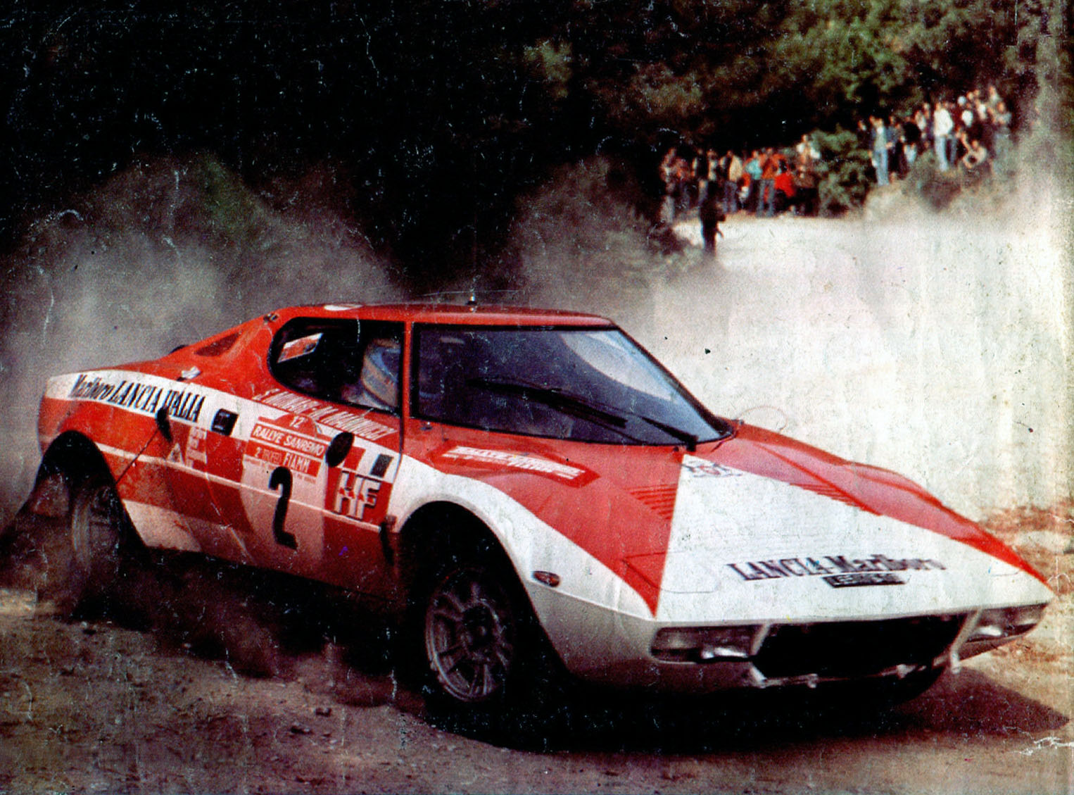 Italian rally driver Sandro Munari and his co-driver Mario Mannucci on a Lancia Stratos HF (Group 4) sponsored Marlboro at the 1974 Rallye Sanremo.